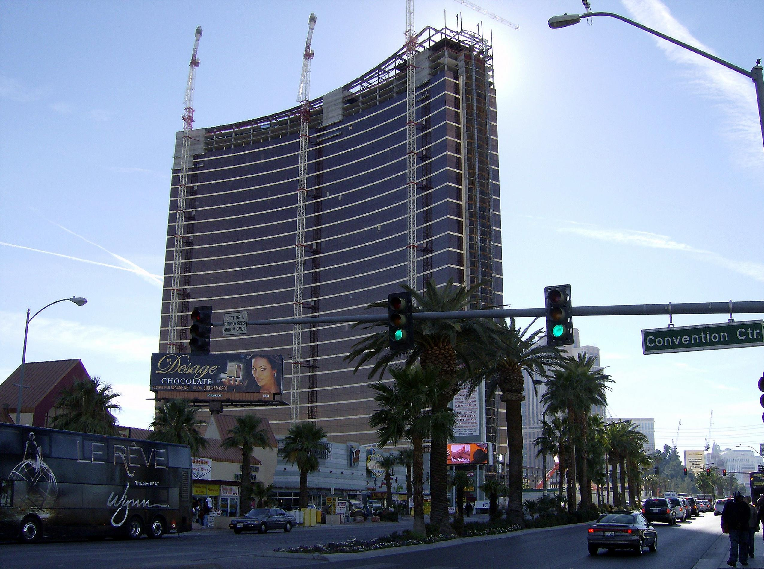 Wynn's Encore in progress.